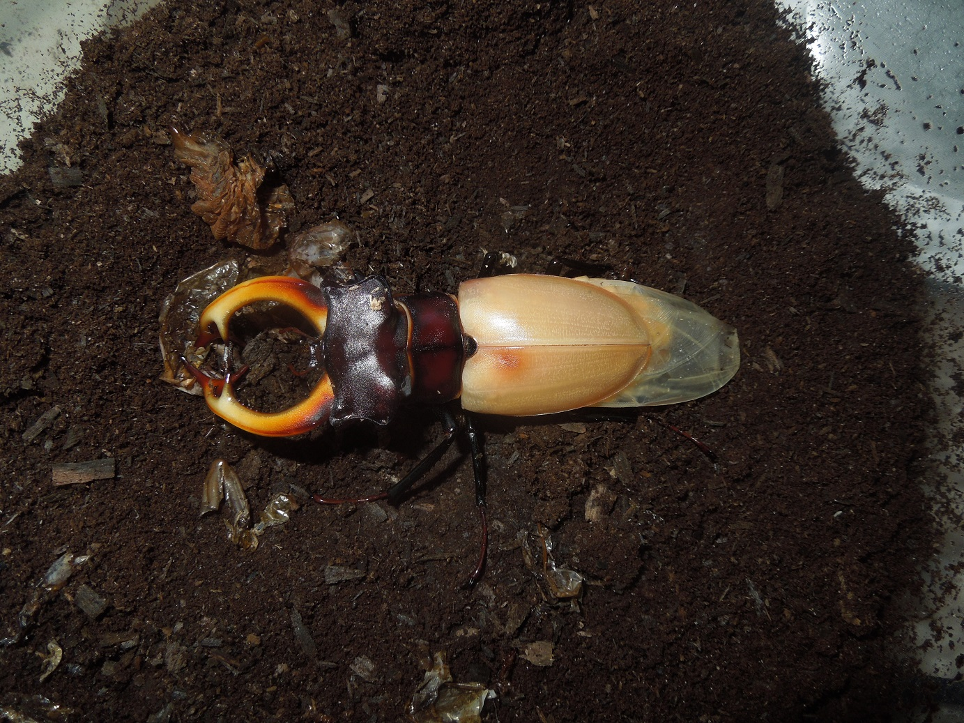 Freshly hatched male, 90 mm.